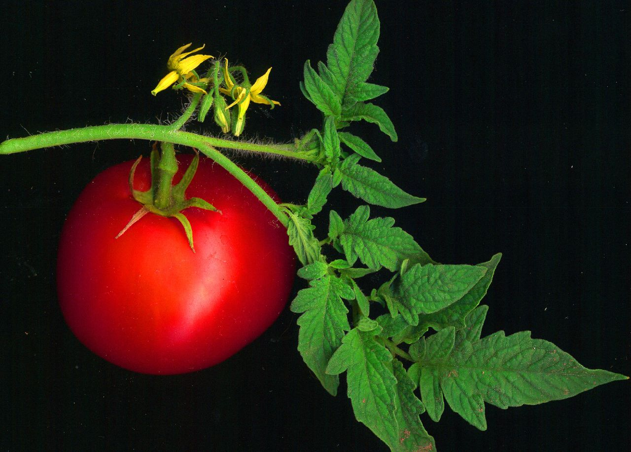 A scanned red tomato, along with leaves and flowers.Tomato